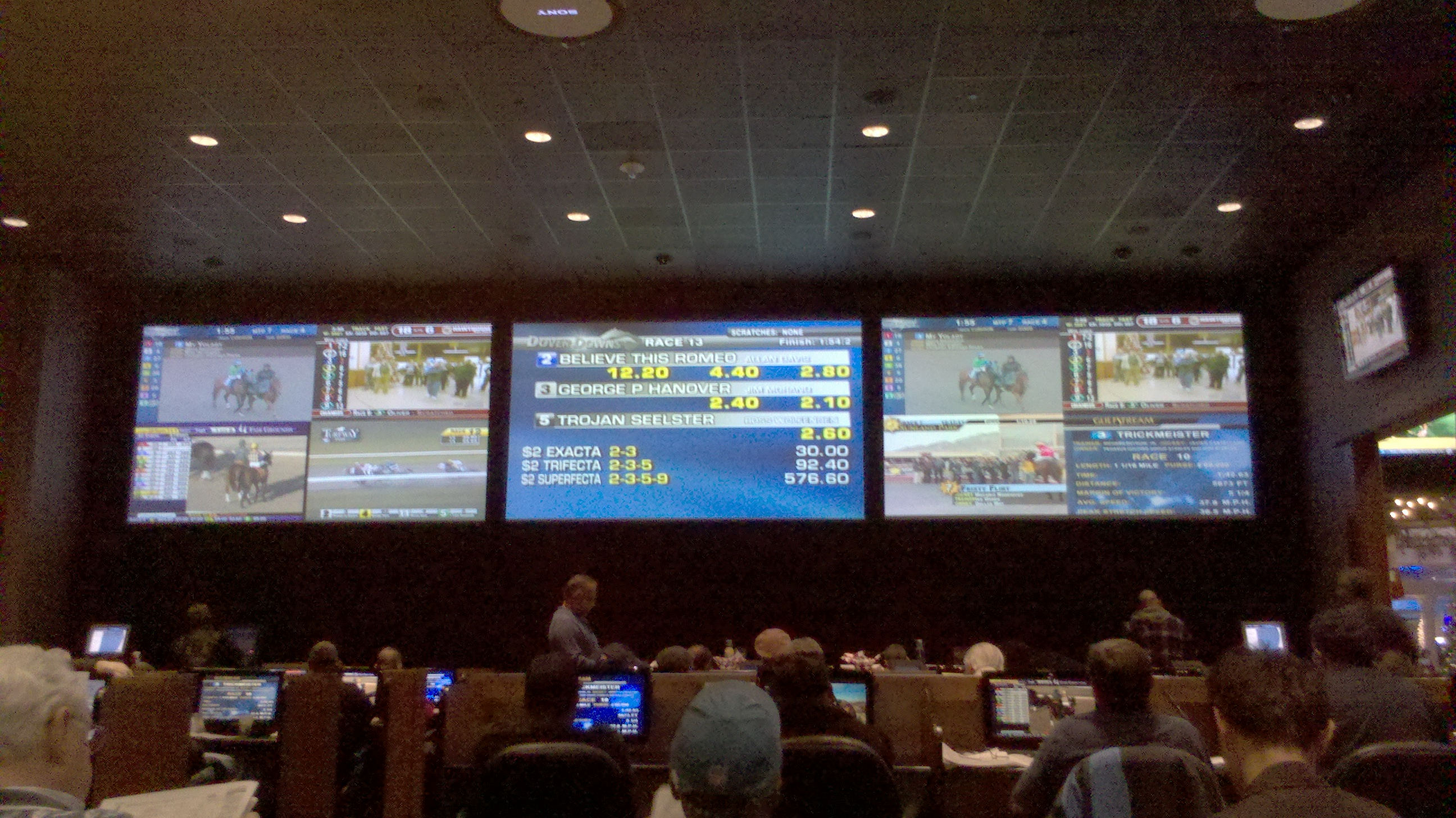 Dover Downs' sports lounge, showing the three main TV which are simulcasting different horse racing tracks